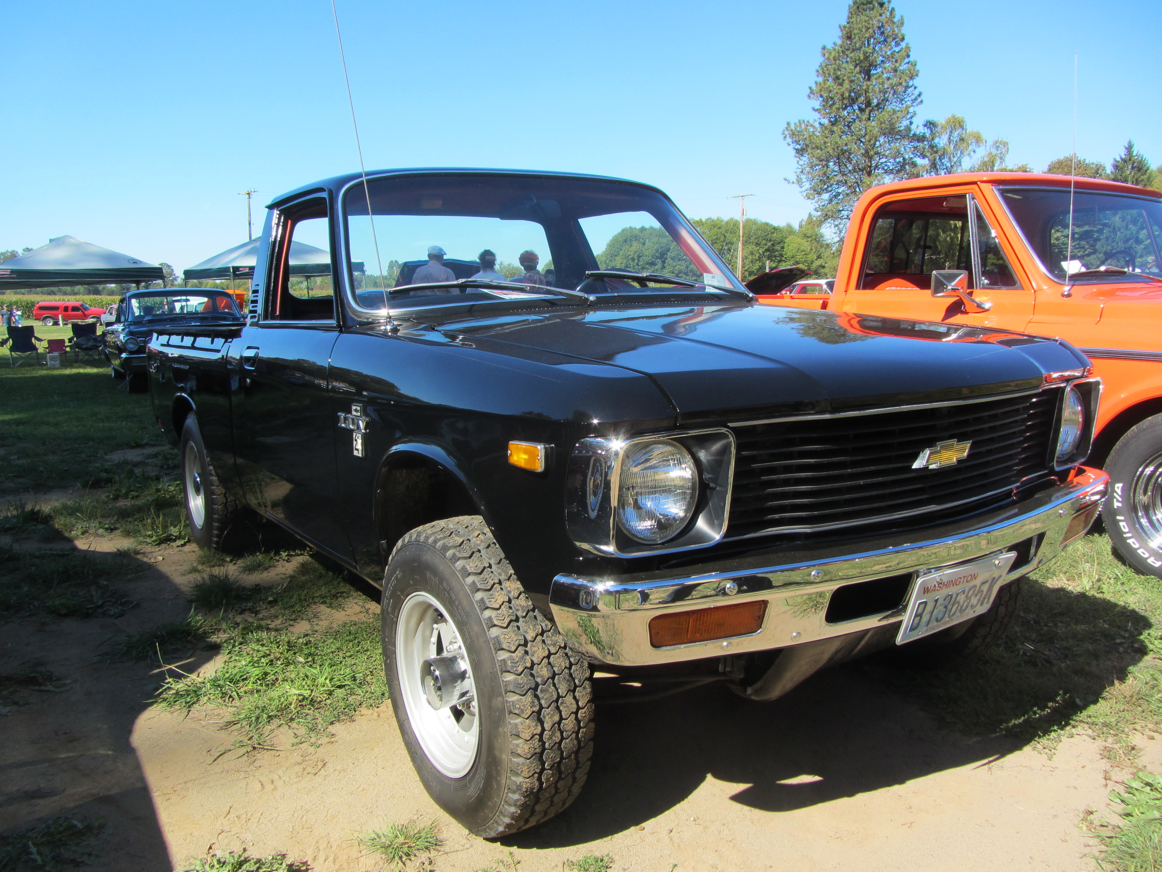 Light Utility Vehicle, Made by Isuzu for Chevrolet. Utilizes the cab from the Isuzu Florian car.